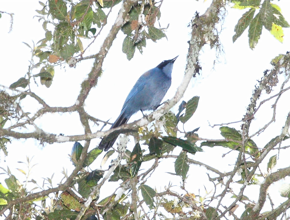 Dwarf Jay